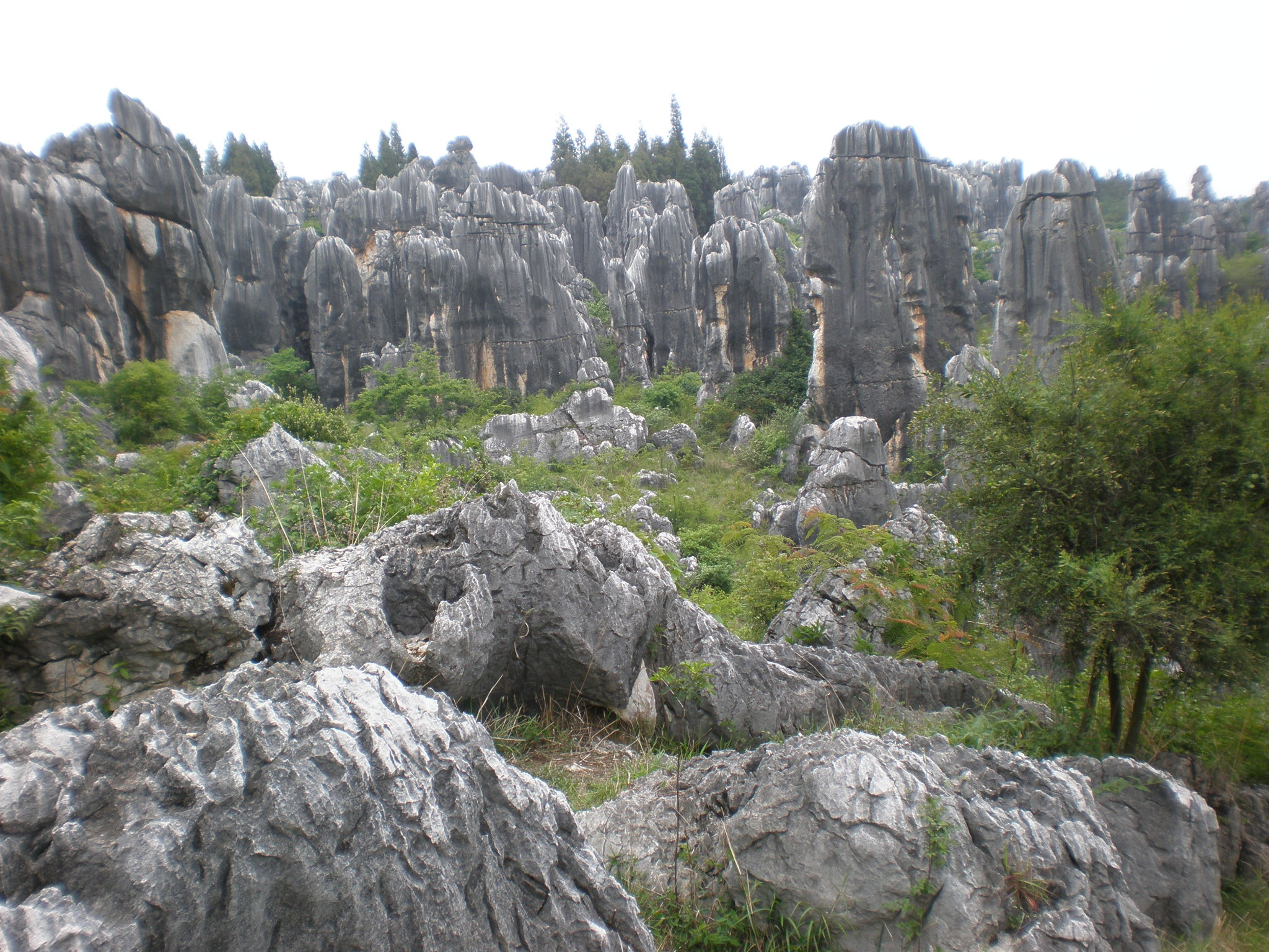 A section of the northeast outer area of the Major Stone Forest, the main portion of the Stone Forest in Yunnan.